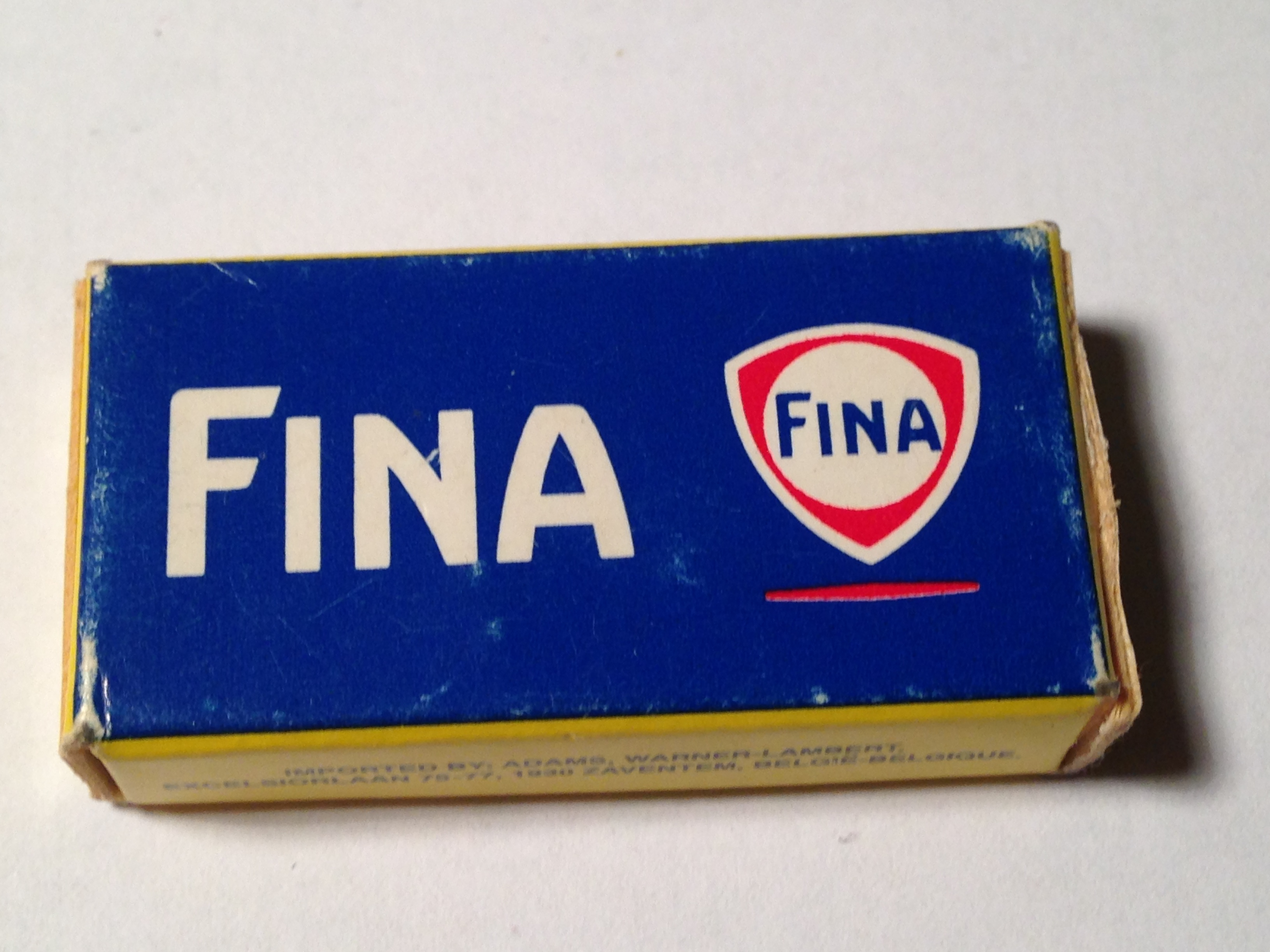 Rear side of the pack